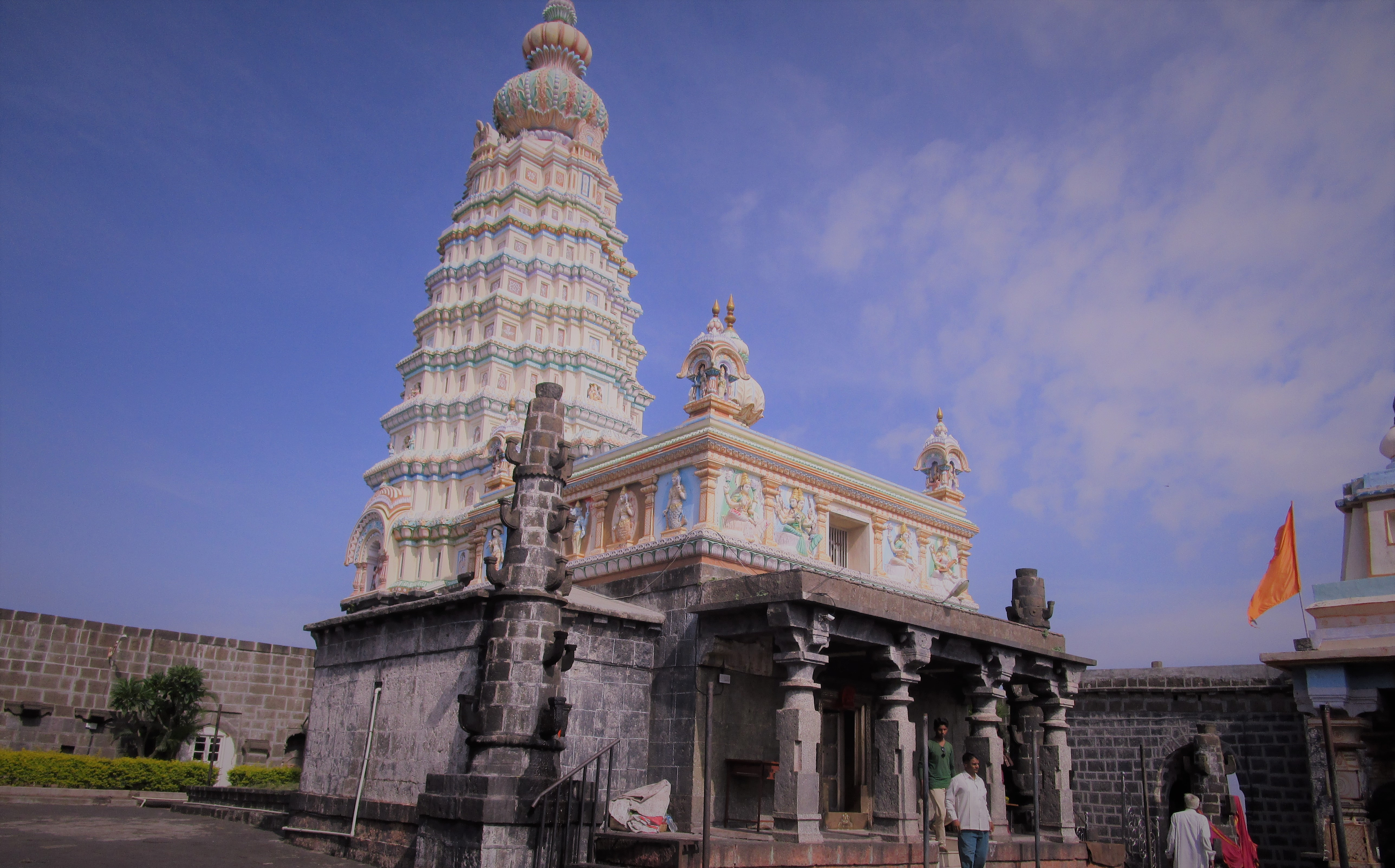 This temple is mounted on hill